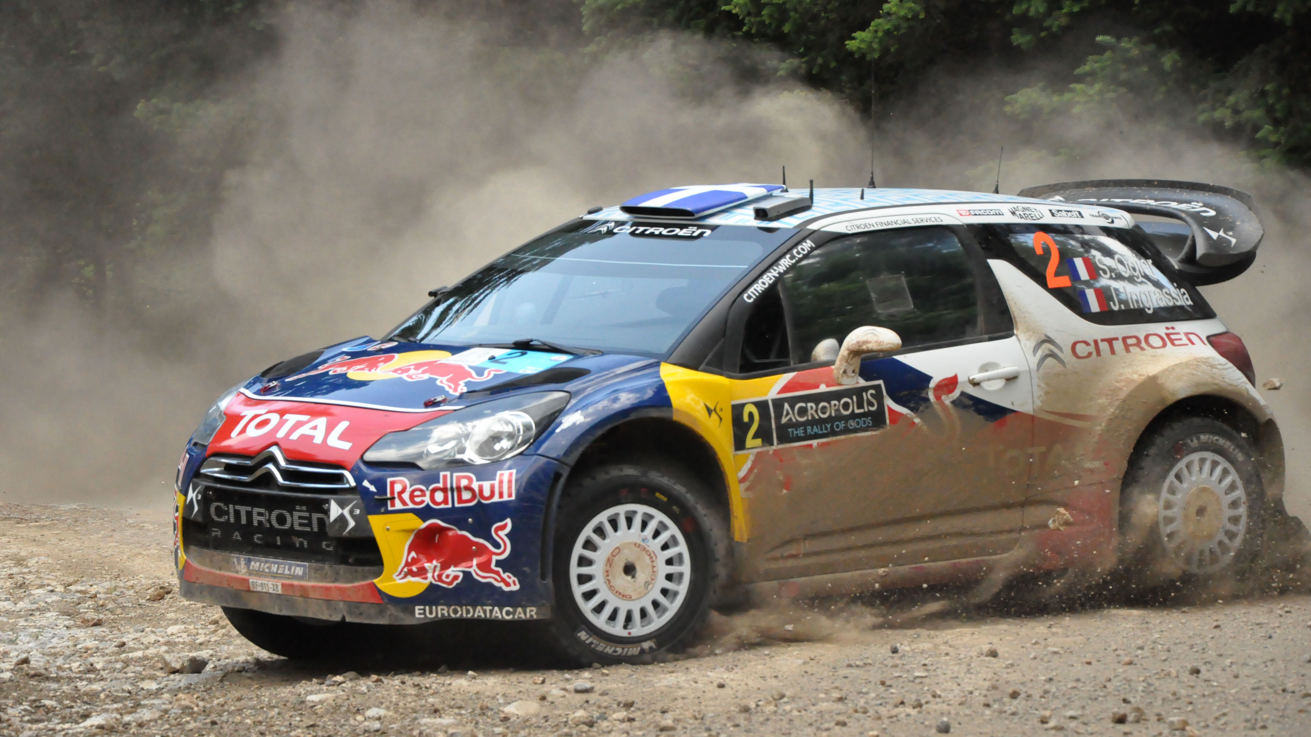 WRC Rally Acropolis 2011, SS3 Eleftherohori, Sebastien Ogier & Julien Ingrassia.